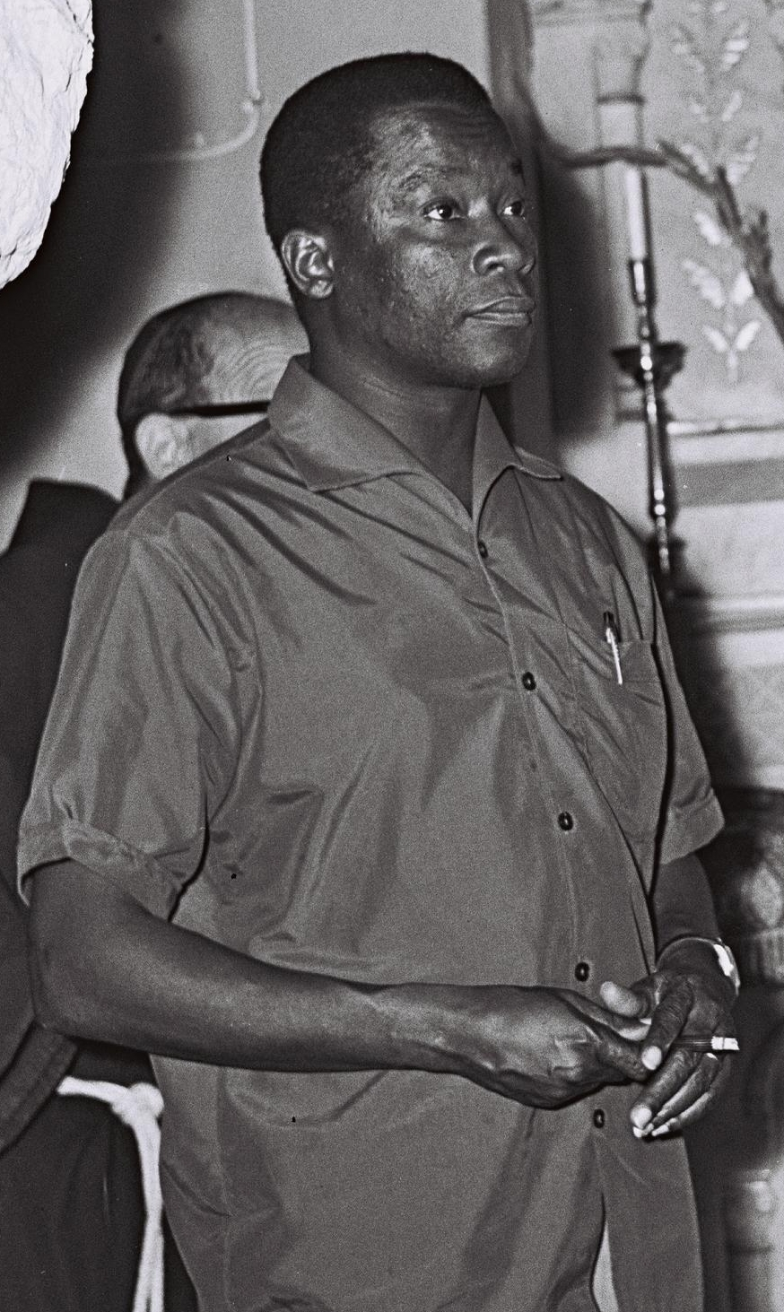 VICE-PREMIER OF CHAD, GABRIEL LISETTE, VISITING THE CHURCH OF ANNOUNCIATION IN NAZARETH